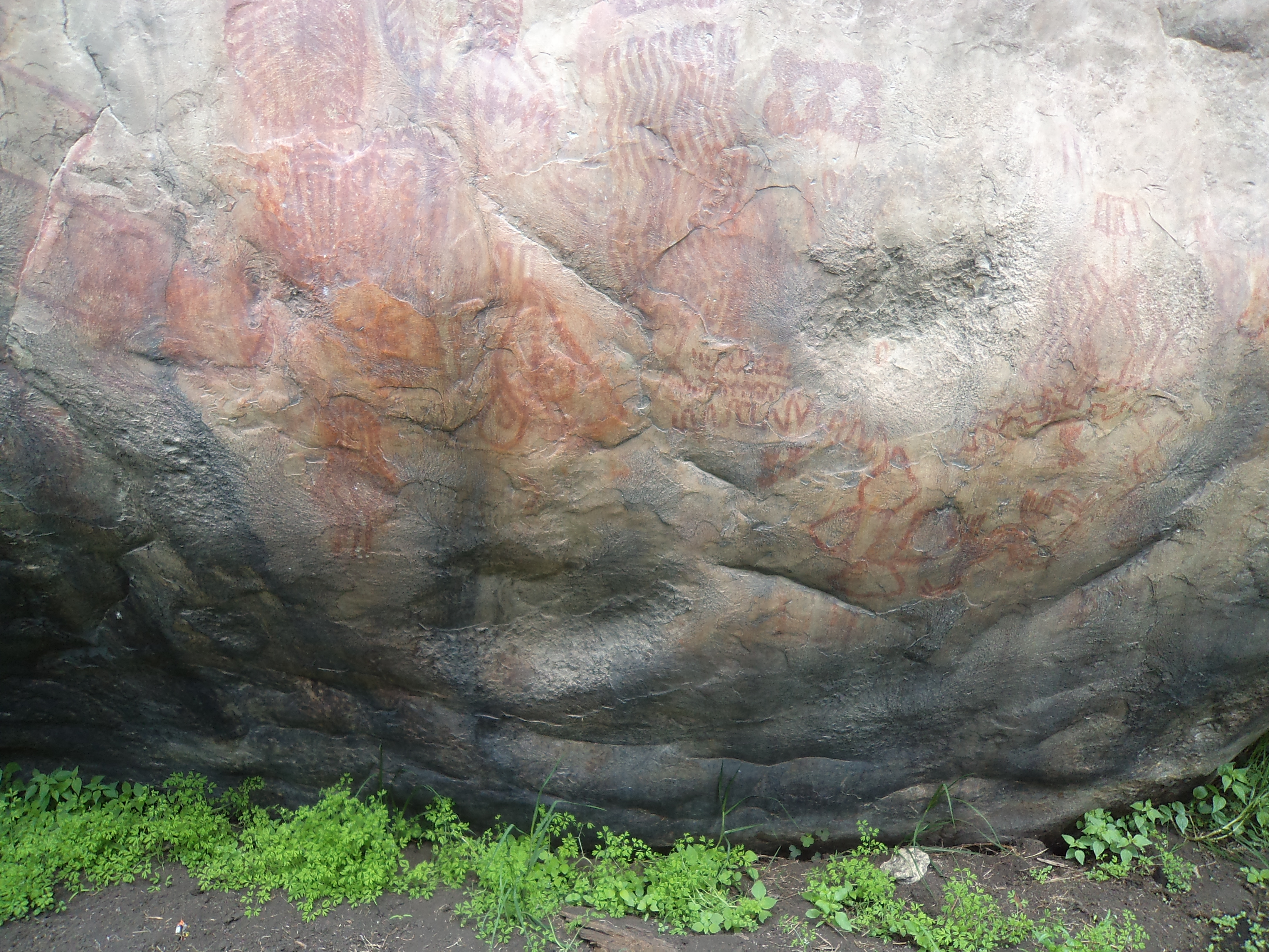 Parque arqueologico Piedras del tunjo Esta fotografía fue tomada en un área protegida de Colombia con el arqueologico Piedras del tunjo código Parque arqueologico Piedras del tunjo del RUNAP.